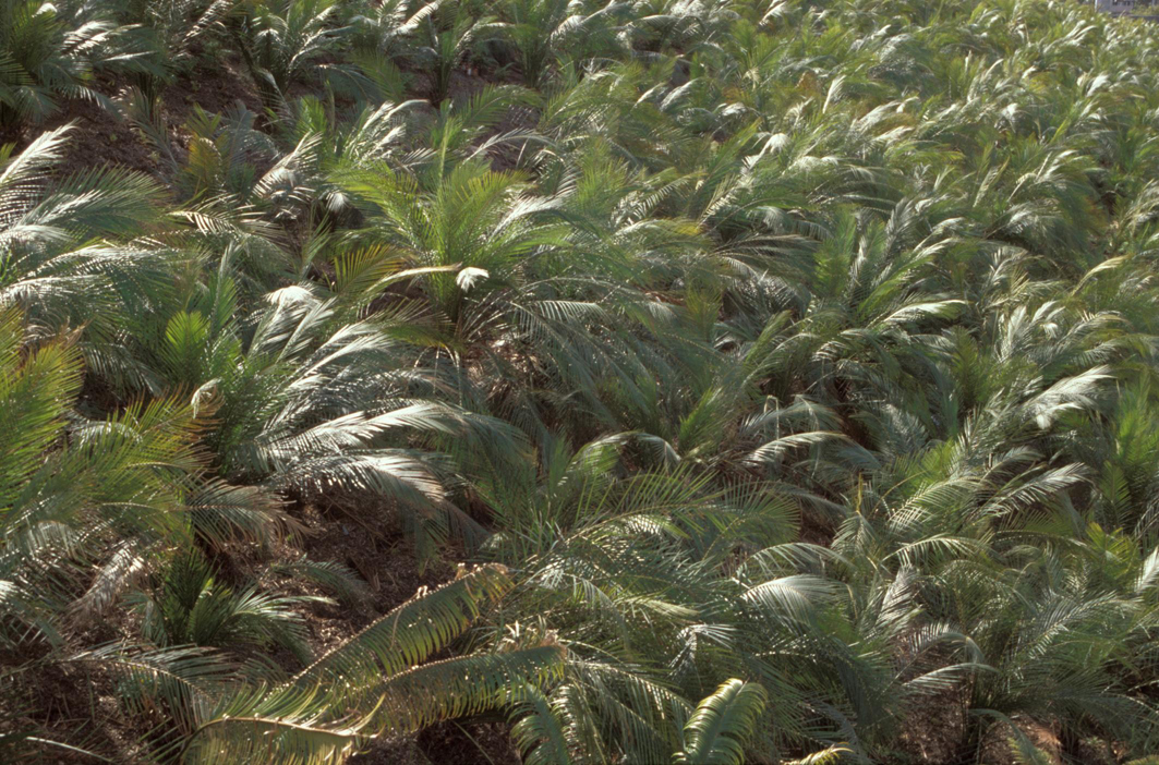 Macrozamia communis in Birrarung Marr, Melbourne. Photo by R Jones. Image scanned from 35mm slide.